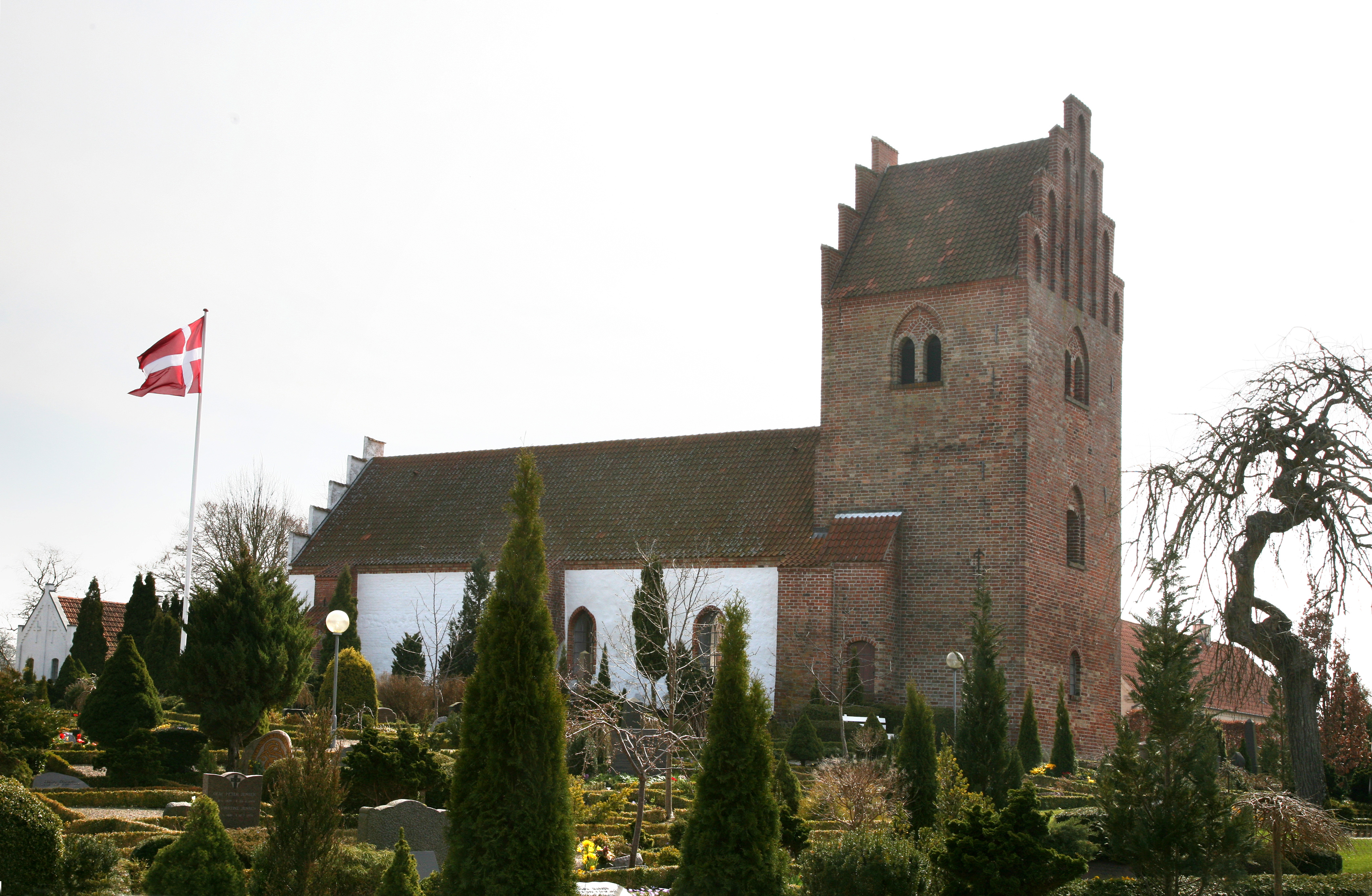 Vigersted church in Ringsted kommune, Denmark